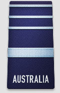 RAAF Air Chief Marshall